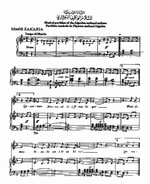 Algerian national anthem, page 1